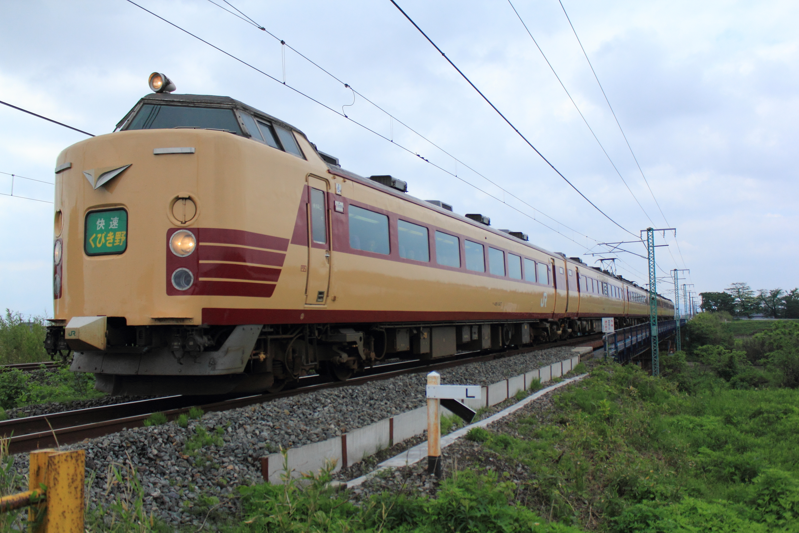 JR East 485 series 6-car EMU set K-2 on the Kubikino 1 service on the Shinetsu Mainline between Kameda and Ogikawa Stations